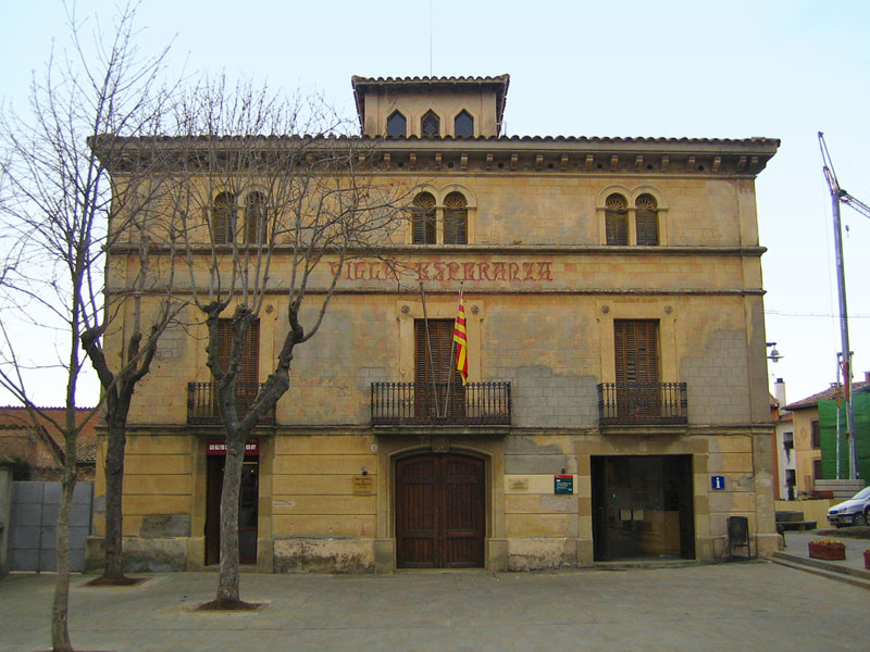 Folgueroles town hall, County Osona, Catalonia, Spain.